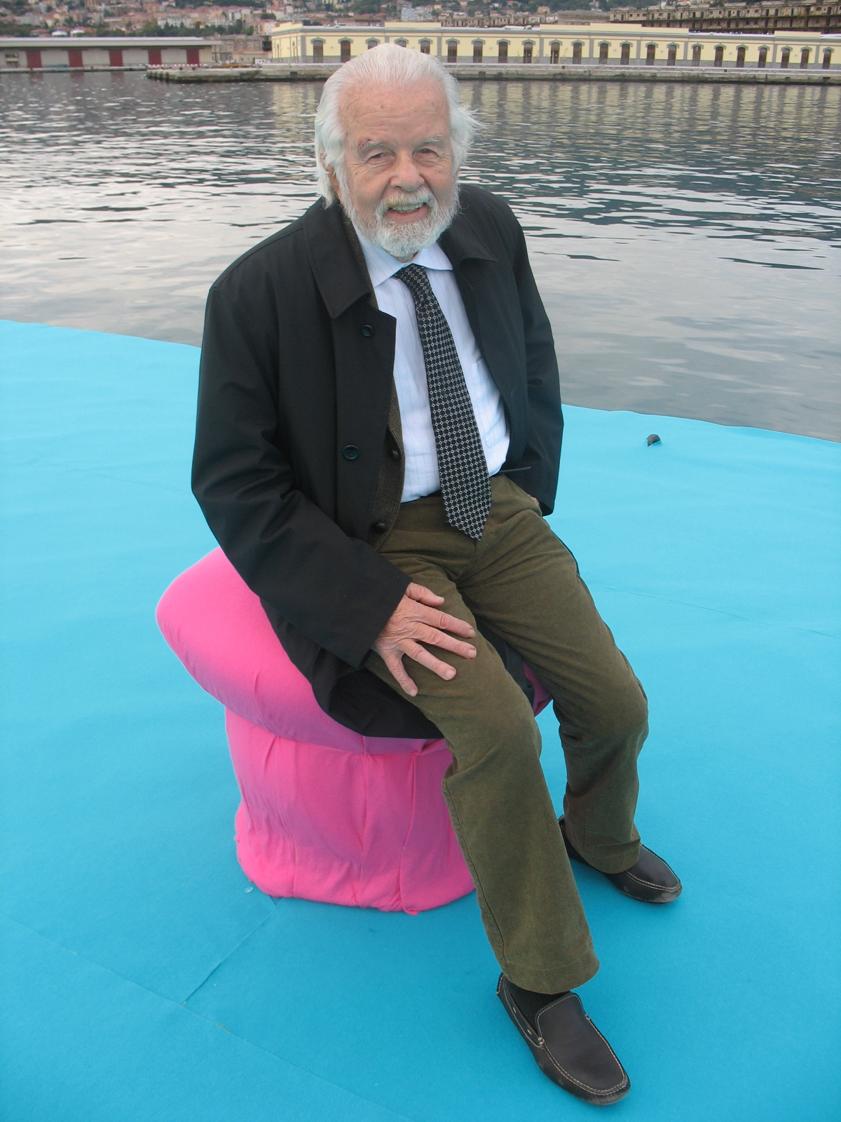 Paolo Budinich on 'molo Audace' in Trieste, Italy